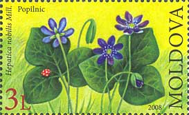 Stamp of Moldova